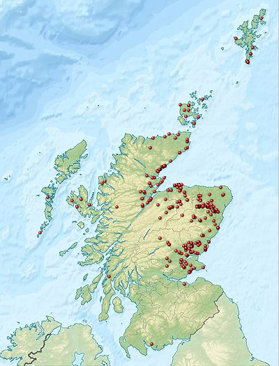 Distribution of Pictish Stones of Classes I and II as well as Caves containing Pictish symbol graffiti